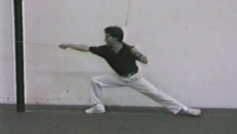 David Mechner using a sword (rotoscopy method to create the sprites of Prince of Persia).